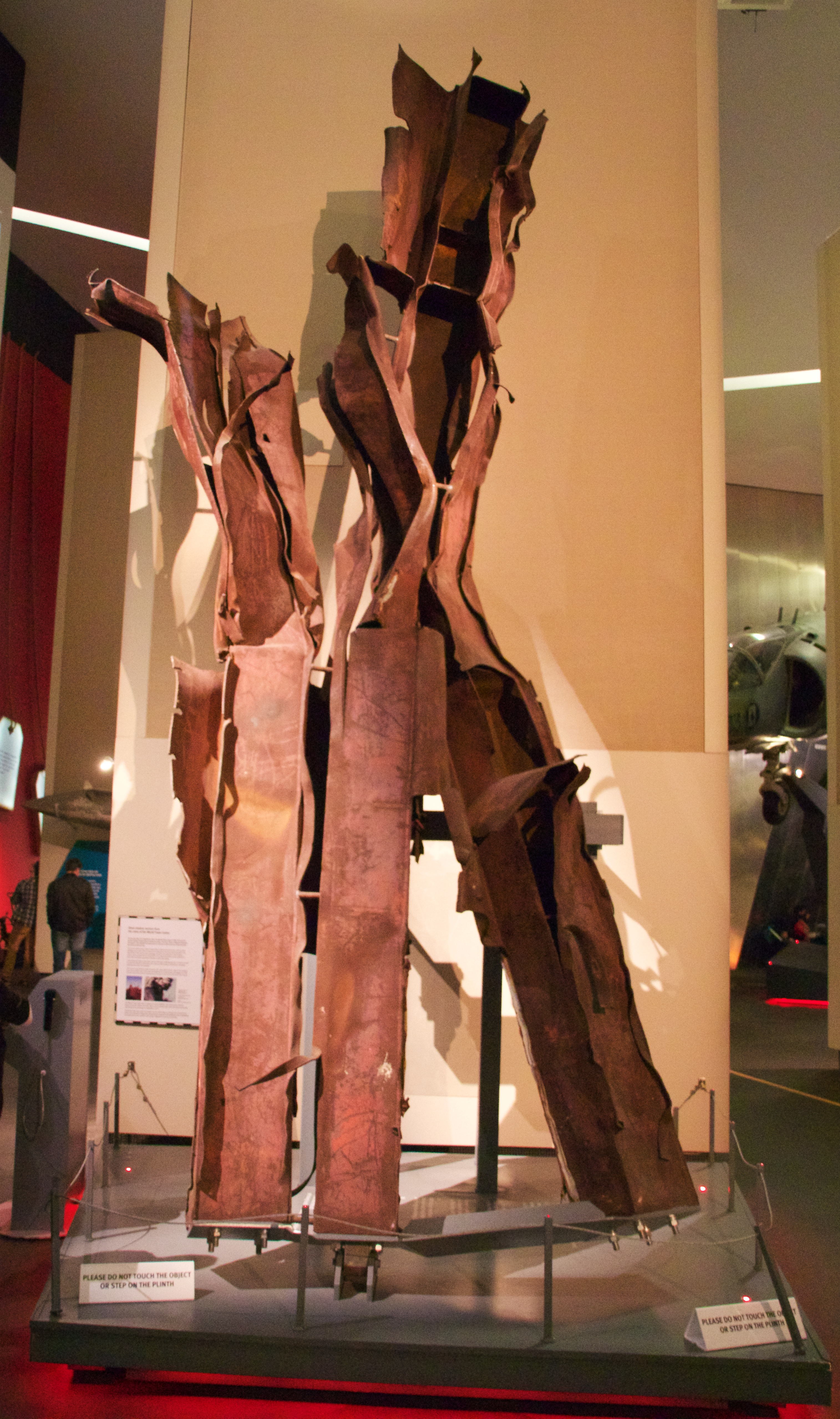 Steel window section from the ruins of the World Trade Center. At the Imperial War Museum North.